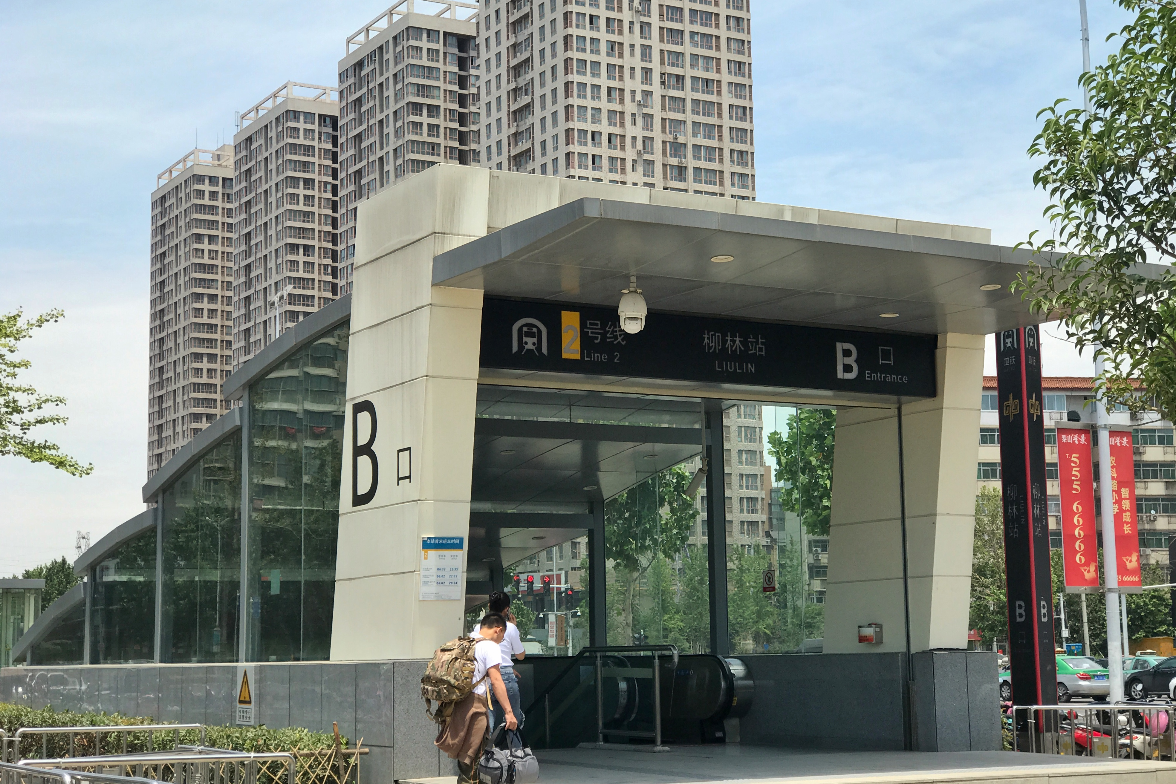 Exit B of Liulin Station